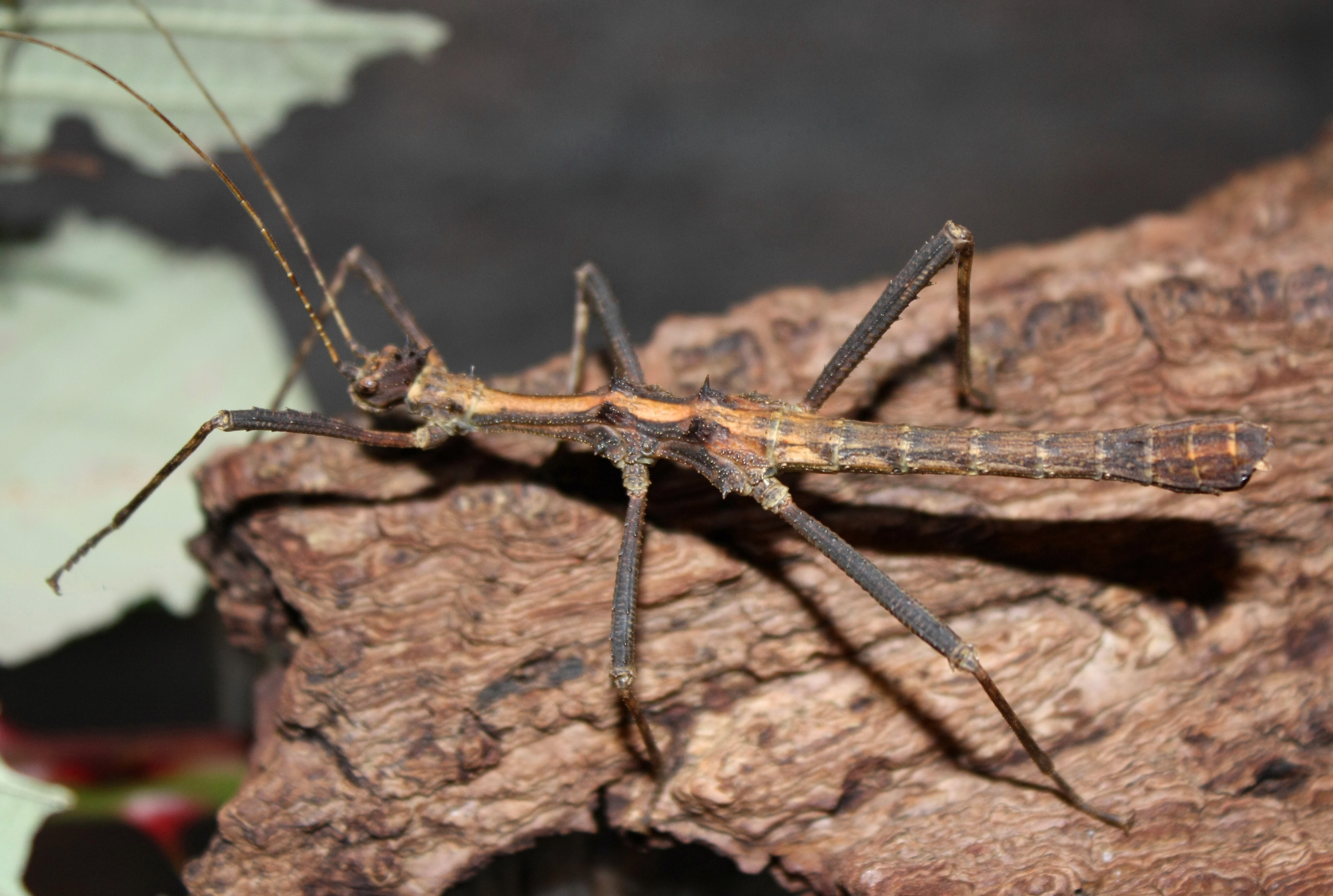 Male of Sungay Stick Insect (Sungaya inexpectata)